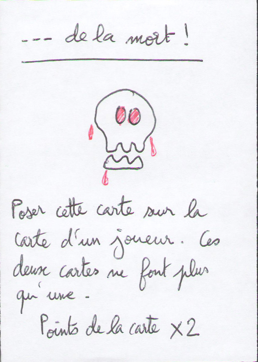 A card from the 1000 blank white cards game (... of the dead)